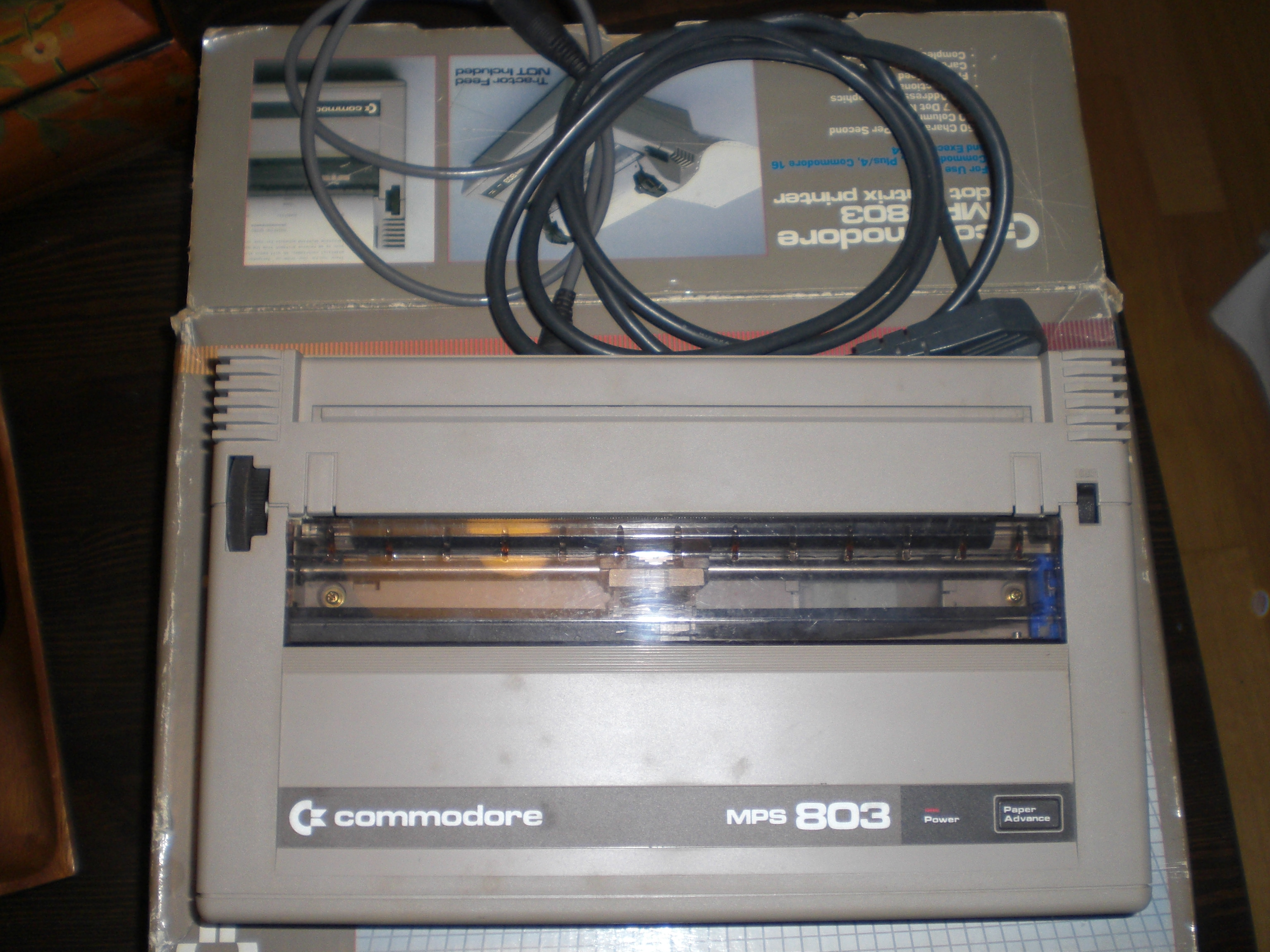 Commodore Matrixprinter MPS-803